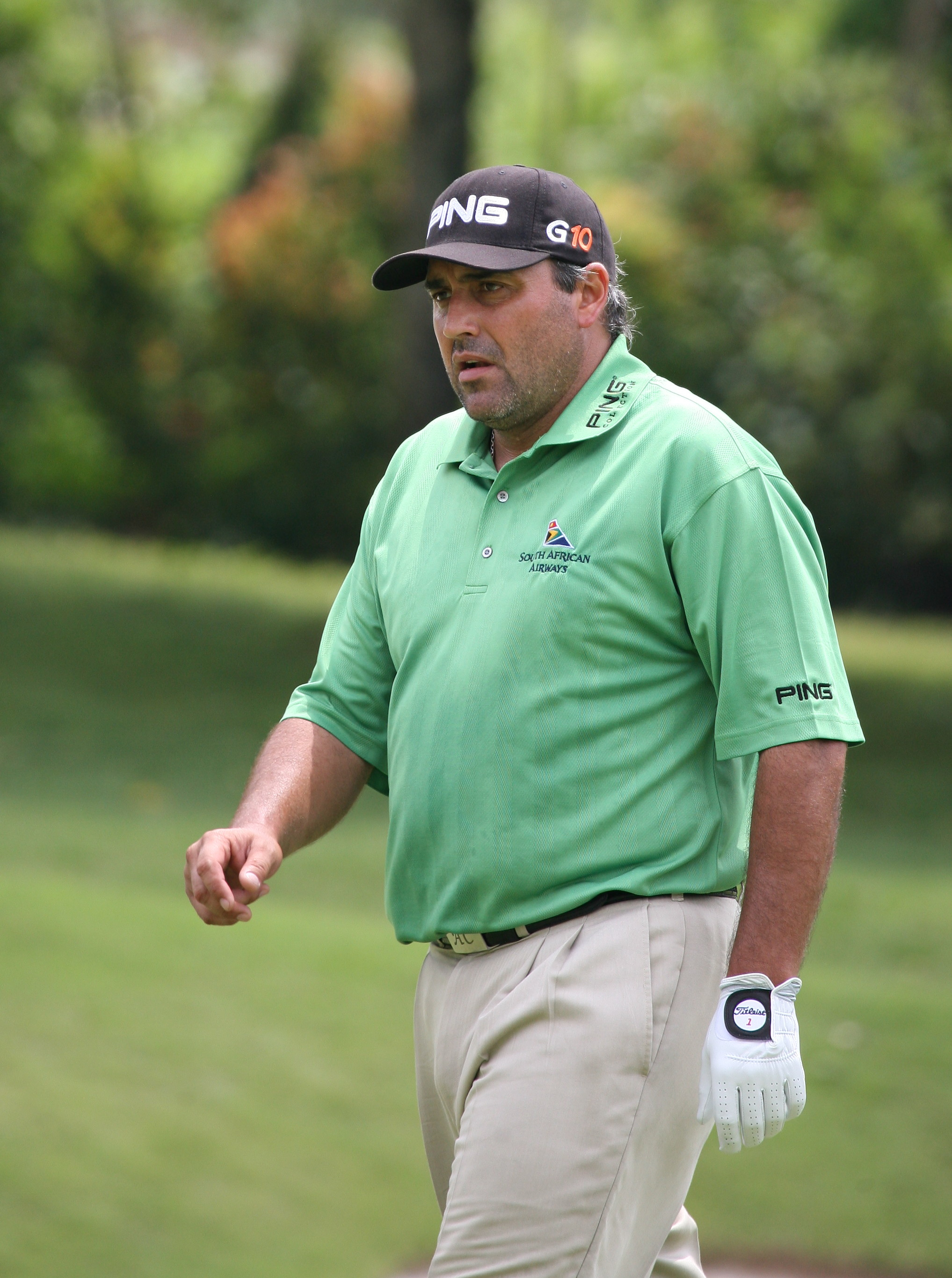 Angel Cabrera in 2007.